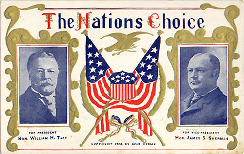 "The Nations Choice" political campaign postcard featuring William H. Taft for president and James S. Sherman for vice president in the United States presidential election, 1908. Multiple designs with similar wording exist. This design has red and white printing, and embossed golden detailing; it features flags raised above the laurels, with an eagle carrying arrows above and between the flags, and a copyright of "Hyman". Original caption: The Nations Choice for presidentHon. William H. Taft for vice presidentHon. James S. Sherman COPYRIGHT 1908 [?] HYMAN(?)